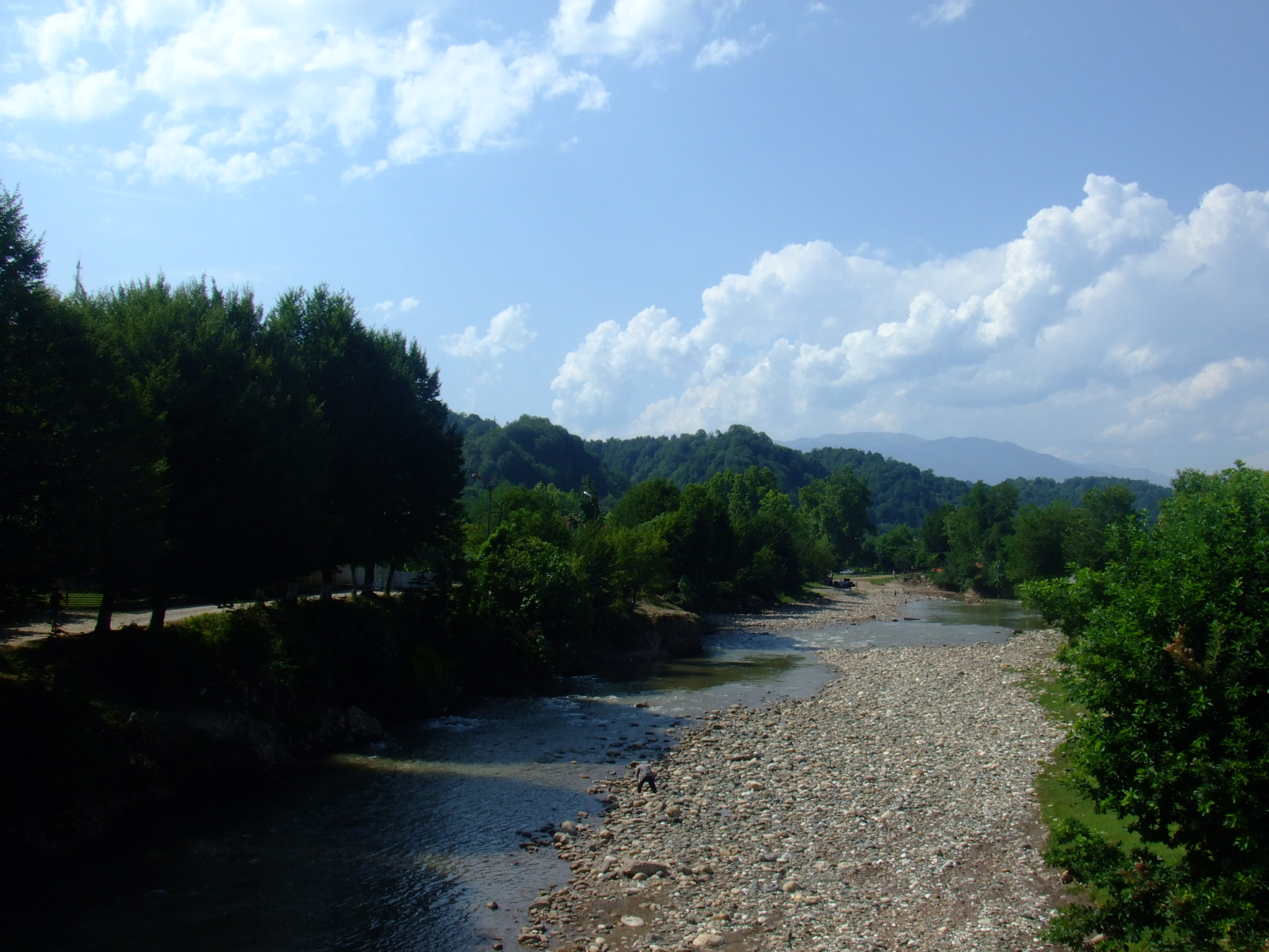 Tsalenjikha